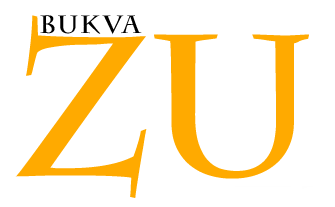 “Letter Zu” (Bukva Zu) program logo